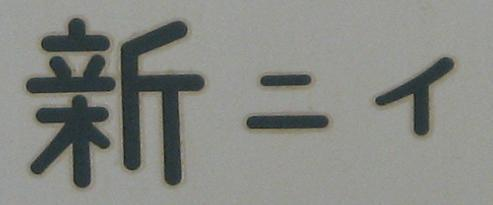 Symbol of Niigata Rolling Stock Center, marked on its rolling stock